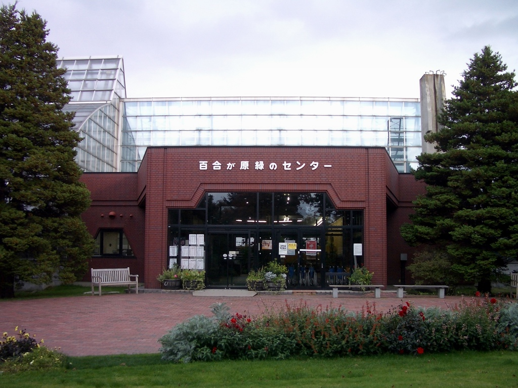 Yurigahara green center, Kita-ku, Sapporo, Hokkaido, Japan.